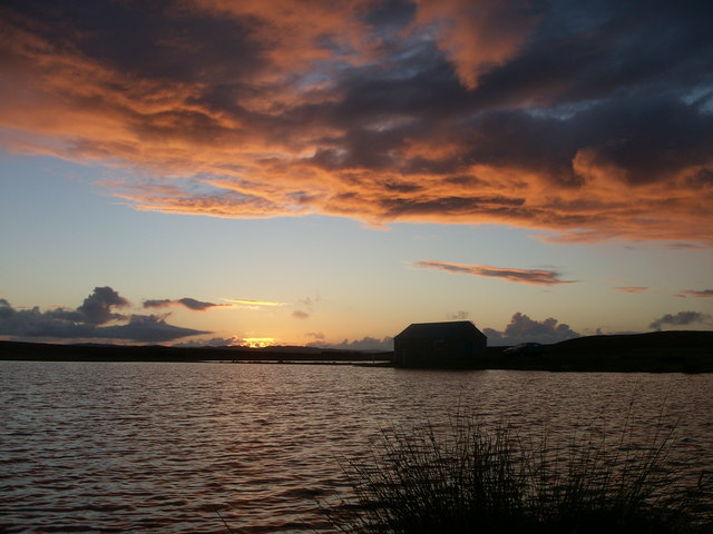 Loch of Houll Sunset Loch of Houl and small boat hut.